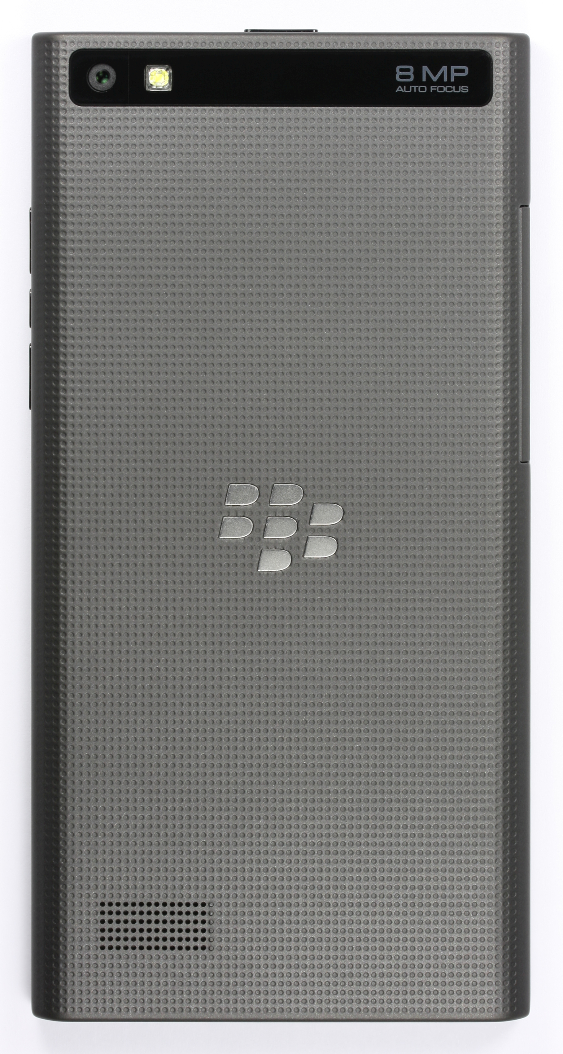 The back side of a BlackBerry Leap